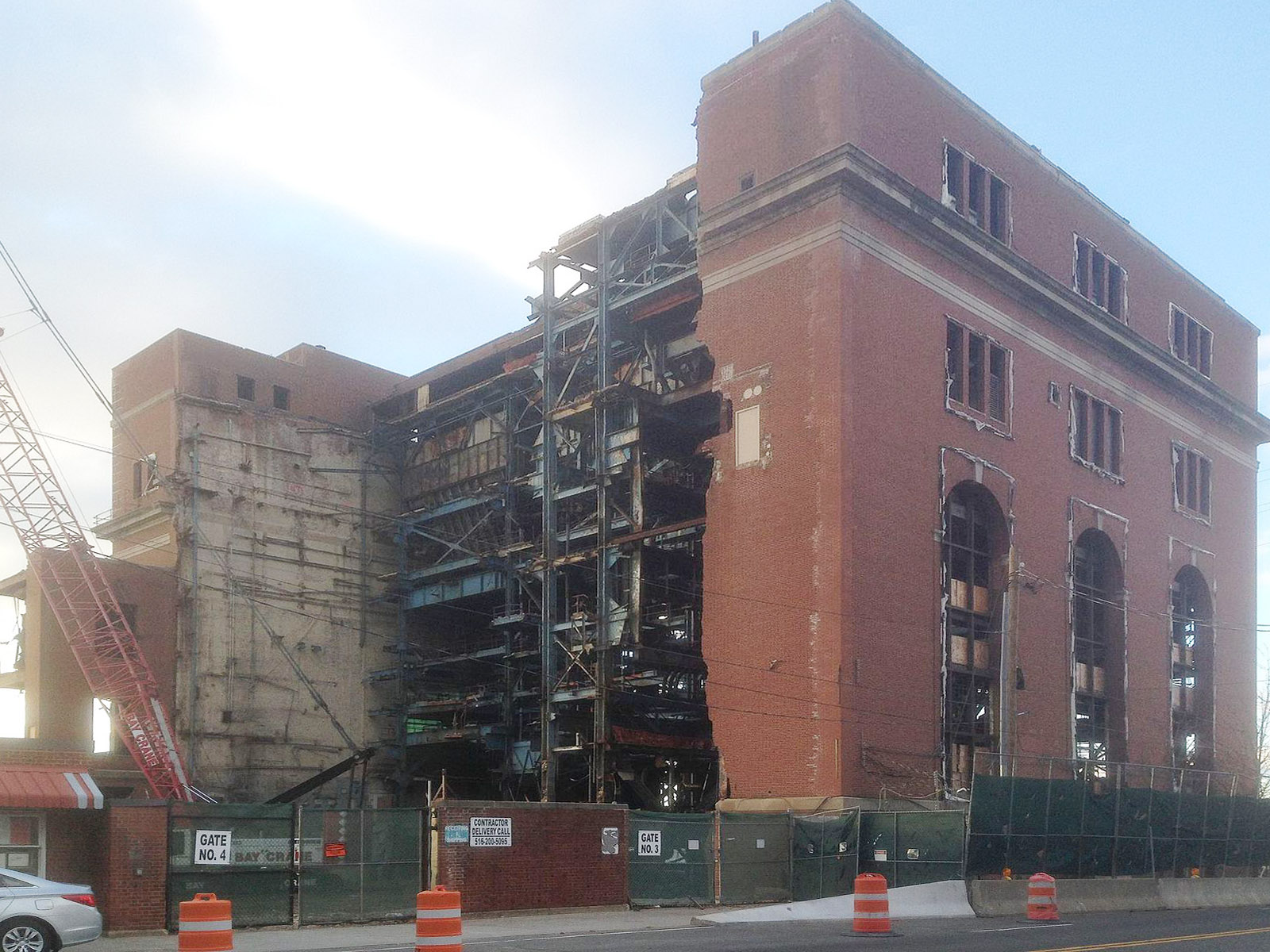 This is a copy of the photograph originally on the page, and I lightened it to see more detail, and the used "Free Transform" in photoshop to adjust the perspective